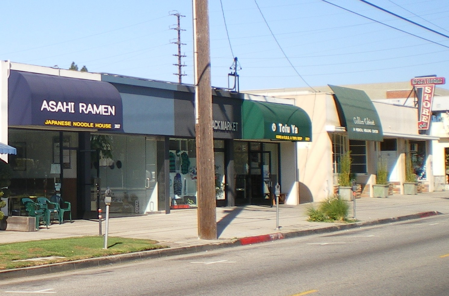 Japanese Businesses on Sawtelle north of Oympic Japanese Businesses on Sawtelle north of Oympic